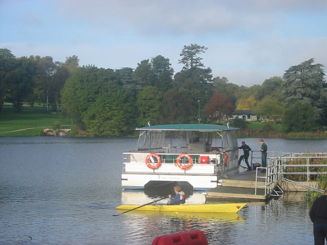 Miss Elizabeth Miss Elizabeth is a pleasure boat that travels the length of Trentham Lake, within Trentham Gardens in North Staffordshire.